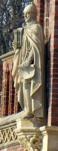 Fridland Tor in Kaliningrad